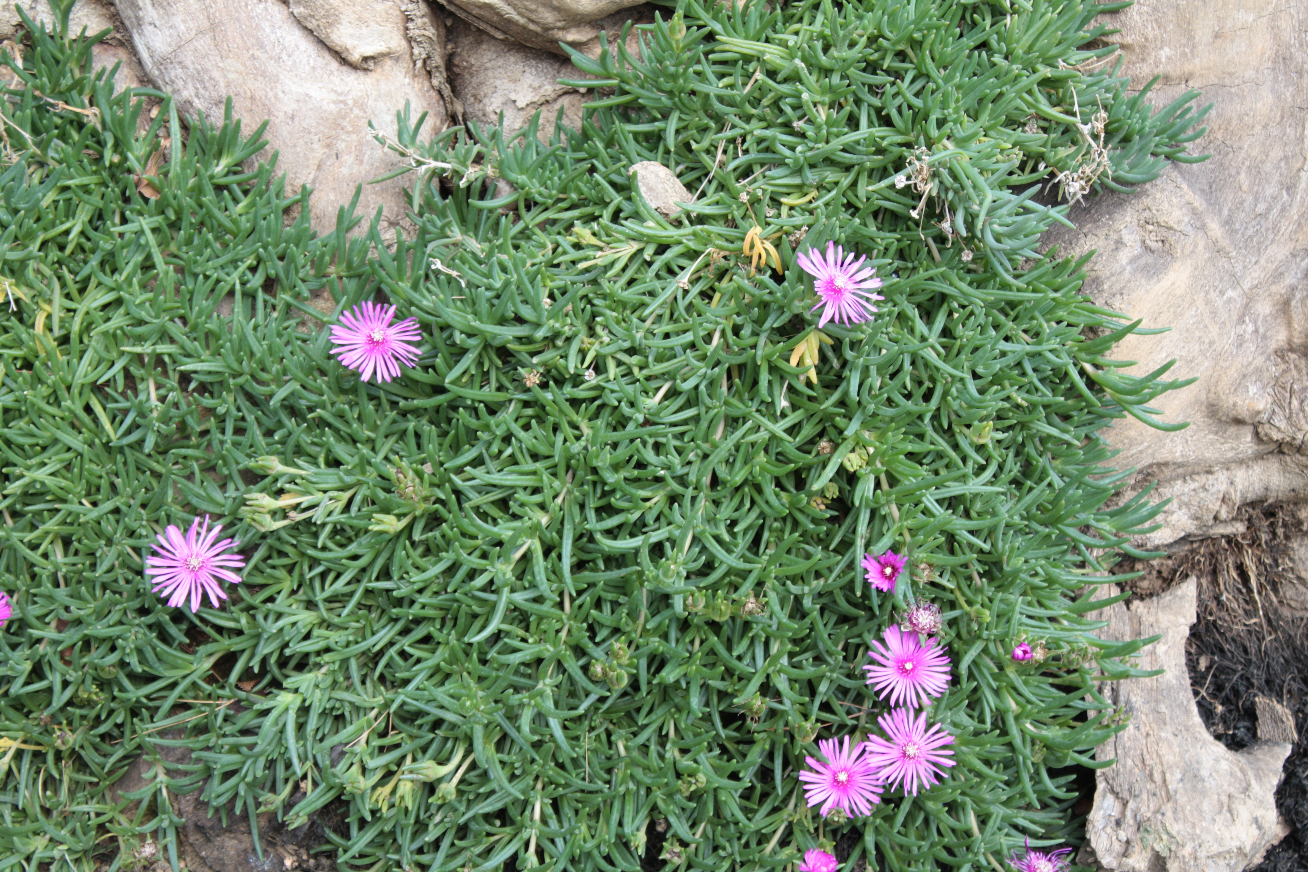 Lampranthus spectabilis